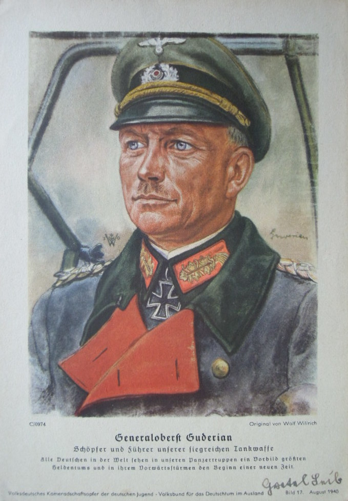 VDA Generaloberst Guderian postcard distributed in April 1939